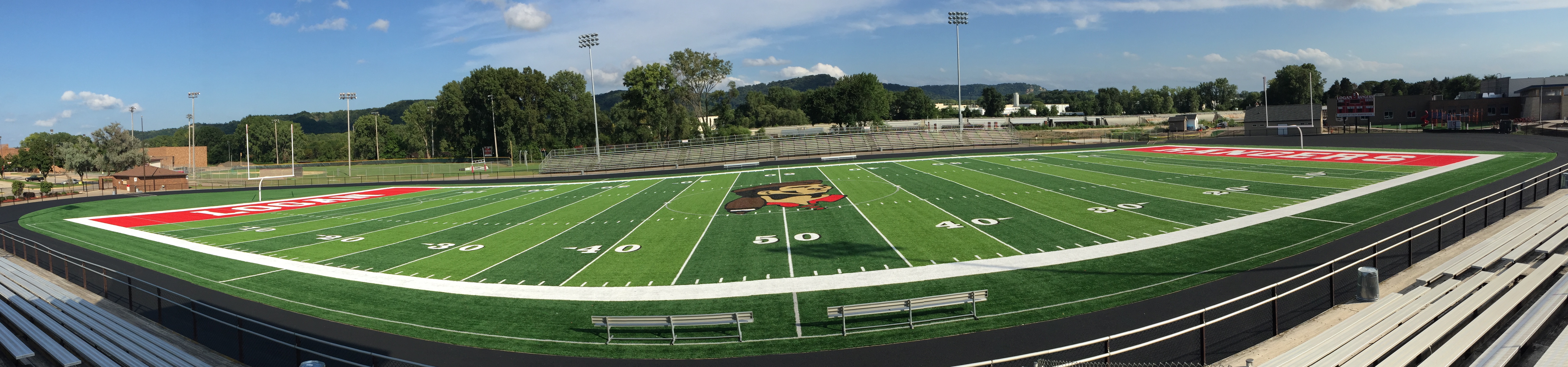 La Crosse Logan Rangers Football Field